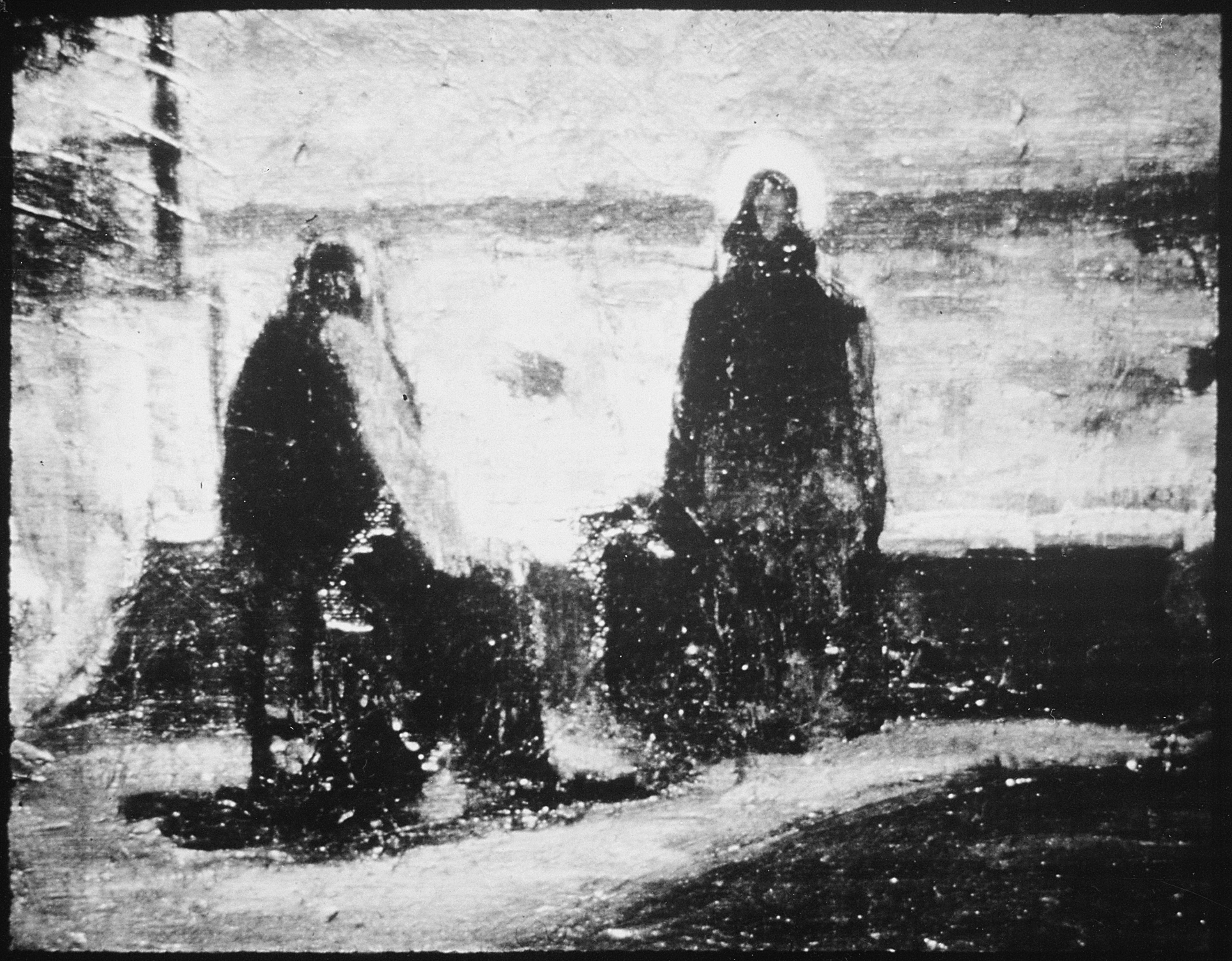 General notes: Painting.